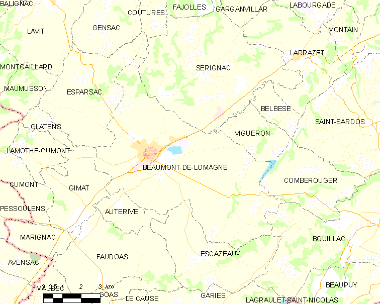 Map of French municipality Beaumont-de-Lomagne